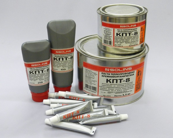 heat sink compound KPT-8